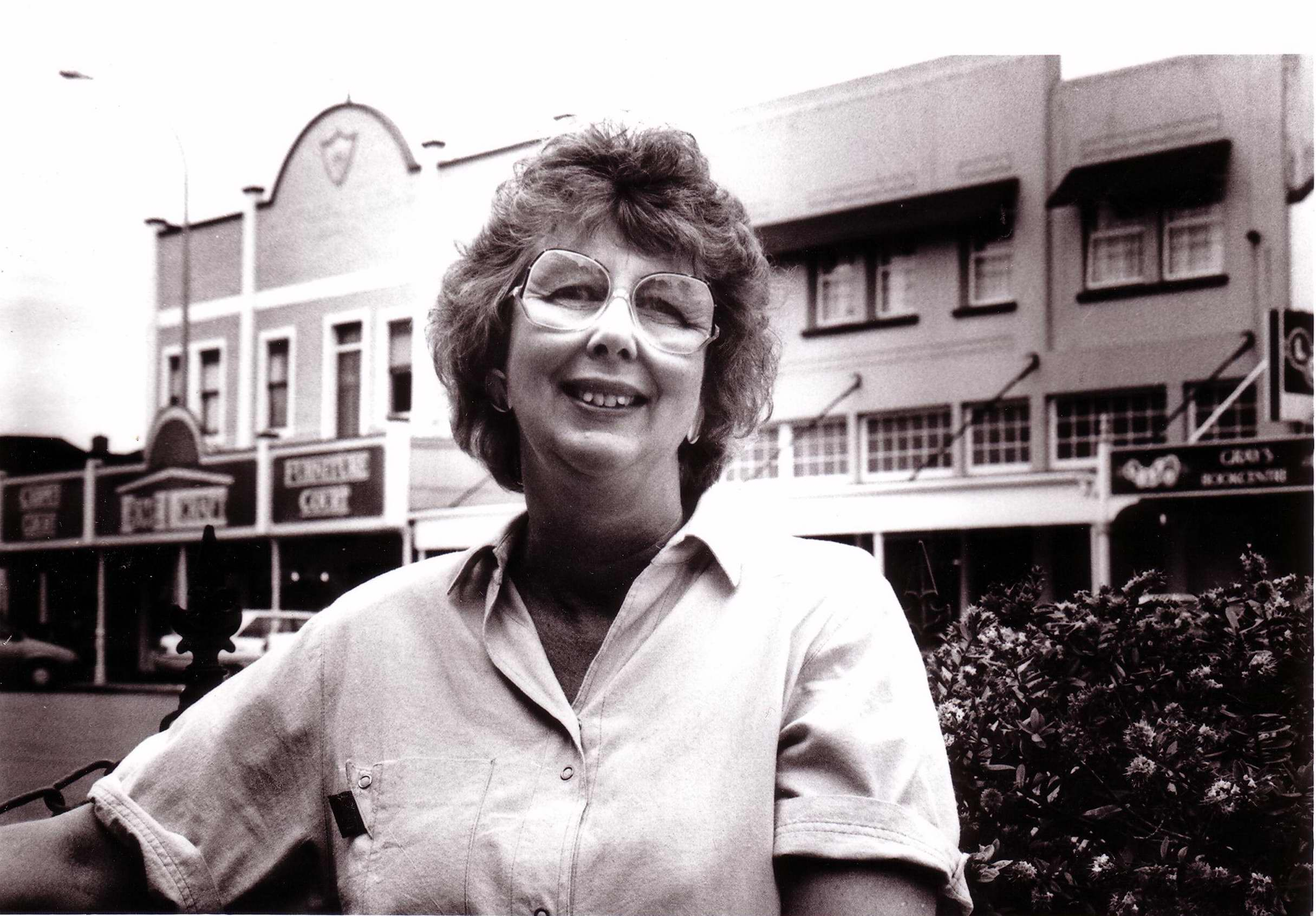 Judy Keall MP, outside Leader and Watt, Main Street, Foxton